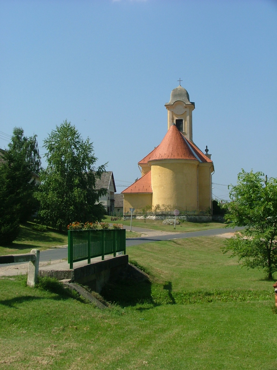 Fenyőfő, Mary Magdalene church This is a photo of a monument in Hungary, Identifier: 12109